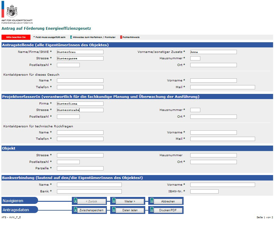 Web form of the Principality of Liechtenstein: energy efficiency